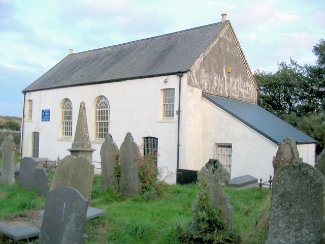 Gellionnen Chapel. On the wall of the chapel is a stone plaque noting that the ancient Gellionnen Stone was moved from this site to Swansea Museum in June 1967